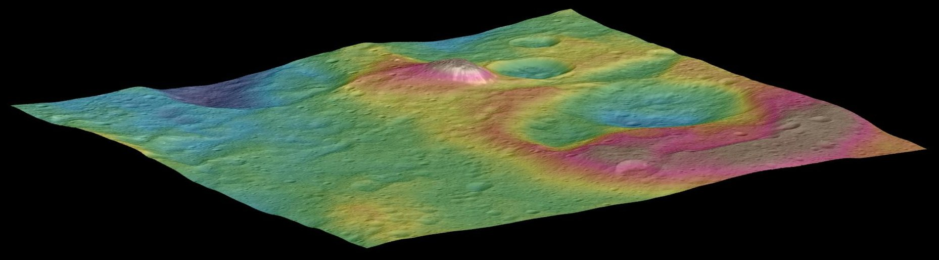 This view, made using images taken by NASA's Dawn spacecraft, features a tall conical mountain on Ceres. Elevations span a range of about 5 miles (8 kilometers) from the lowest places in this region to the highest terrains. Blue represents the lowest elevation, and brown is the highest. The white streaks seen running down the side of the mountain are especially bright parts of the surface. The image was generated using two components: images of the surface taken during Dawn's High Altitude Mapping Orbit (HAMO) phase, where it viewed the surface at a resolution of about 450 feet (140 meters) per pixel, and a shape model generated using images taken at varying sun and viewing angles during Dawn's lower-resolution Survey phase. The image of the region is color-coded according to elevation, and then draped over the shape model to give this view. Dawn's mission is managed by JPL for NASA's Science Mission Directorate in Washington. Dawn is a project of the directorate's Discovery Program, managed by NASA's Marshall Space Flight Center in Huntsville, Alabama. UCLA is responsible for overall Dawn mission science. Orbital ATK, Inc., in Dulles, Virginia, designed and built the spacecraft. The German Aerospace Center, the Max Planck Institute for Solar System Research, the Italian Space Agency and the Italian National Astrophysical Institute are international partners on the mission team. For a complete list of acknowledgments, For more information about the Dawn mission, visit